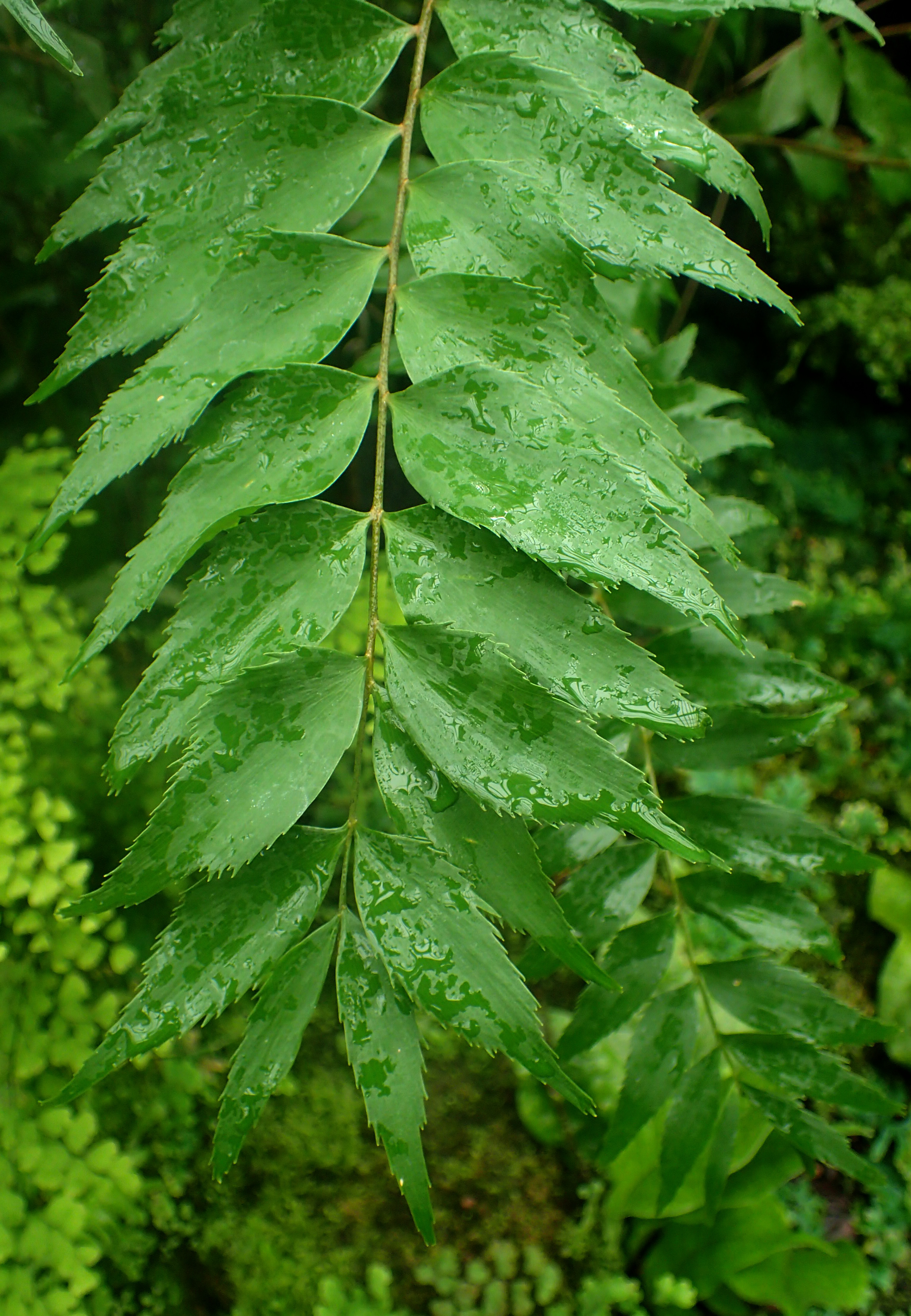 Zamia vazquezii at Garfield Park Conservatory